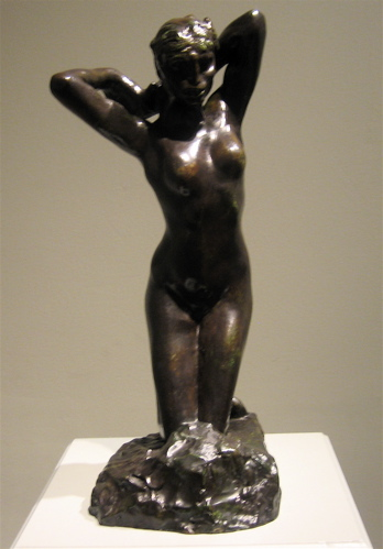 Auguste Rodin (France, Paris, 1840 - 1917) The Kneeling Female Faun, first modelled circa 1884-1886, this cast 1966 (Musée Rodin 11/12) Sculpture, Bronze, 21 1/4 x 8 1/4 x 11 1/4 in. (53.98 x 20.96 x 28.58 cm) Gift of B. Gerald Cantor Art Foundation (M.73.108.9) Wikipedia Loves Art at the Los Angeles County Museum of Art This photo of item # M.73.108.9 at the Los Angeles County Museum of Art was contributed under the team name "artifacts" as part of the Wikipedia Loves Art project in February 2009. Los Angeles County Museum of Art The original photograph on Flickr was taken by joel.parham—please add a comment to the original Flickr page whenever a use has been made on Wikipedia or another project. Project galleries on Flickr: this institution, this team